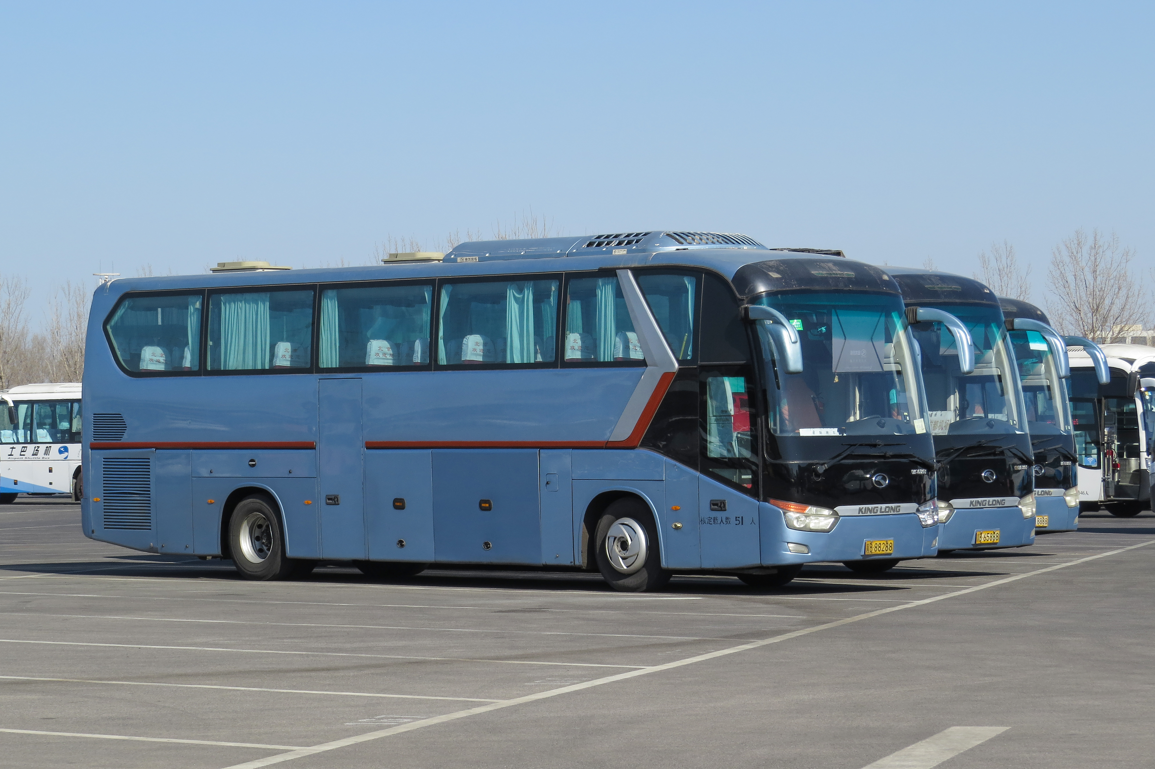 Here are three XMQ6129Y buses from Tangshan to ZBAA.